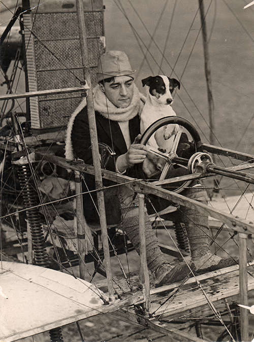 Front view of Edmond Poillot (1888-1914) at the controls of a Voisin biplane at Farman's Aviation School in Mourmelon, France; a dog is sitting on his lap. Circa 1910-1912.